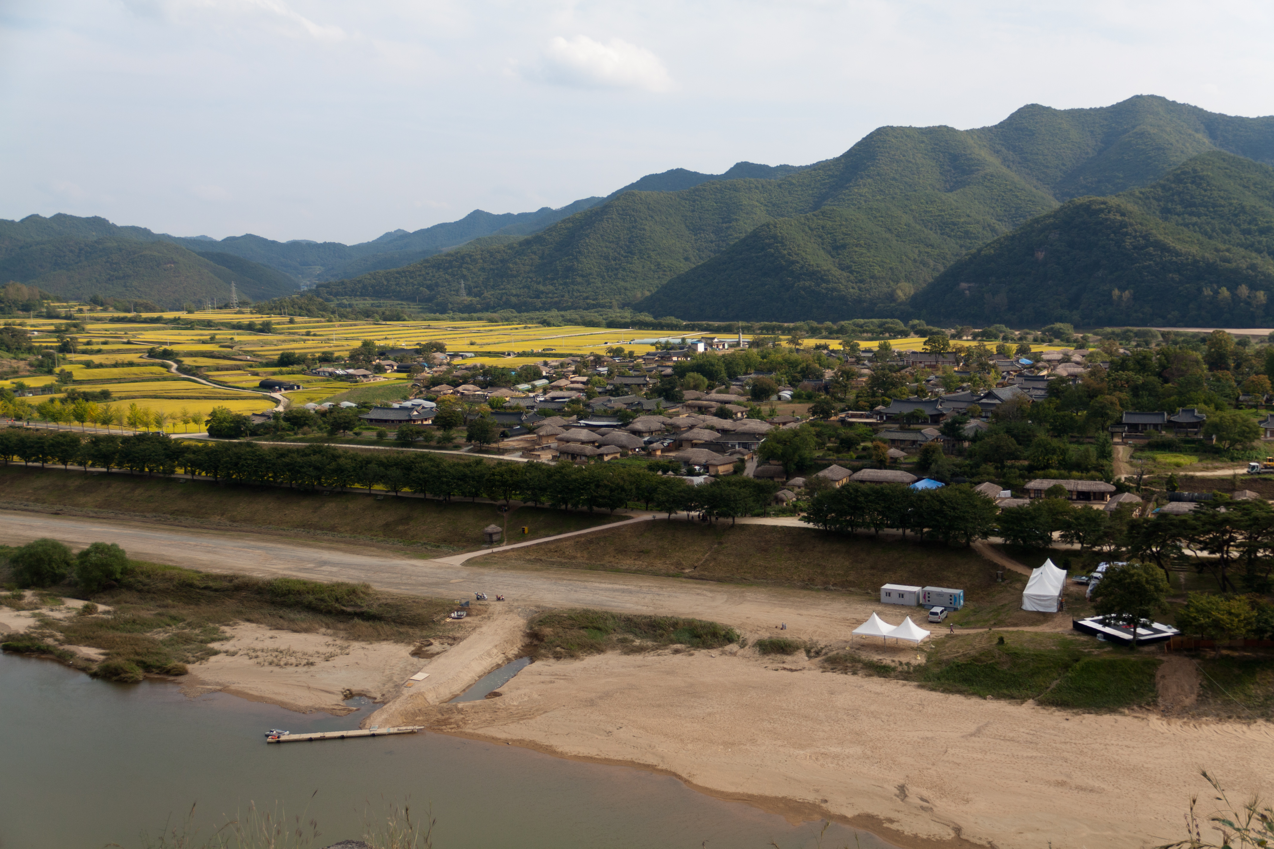 Hahoe Folk Village